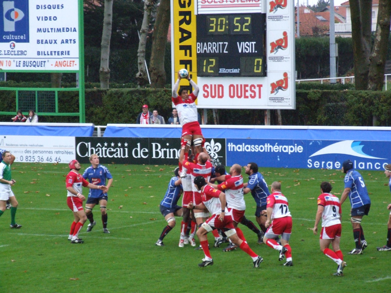 Picture taken December 17, 2006 at Parc des Sports d'Aguilera in Biarritz, France.